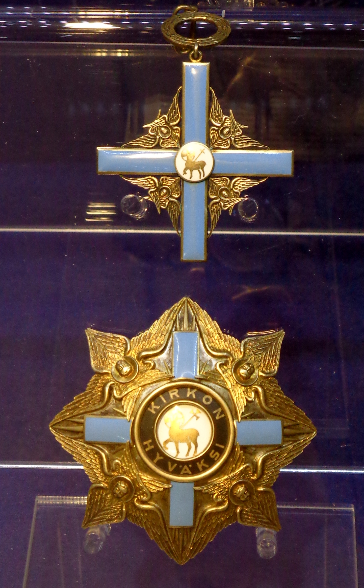 Order of the Holy Lamb, badge and star of Grand Cross. Finnish Orthodox Church. The exhibition of the Tallinn Museum of Orders of Knighthood, Estonia.